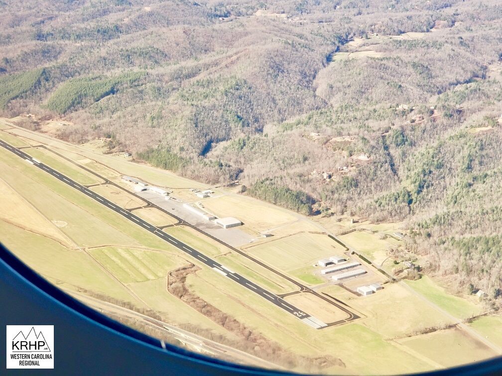 KRHP from the air